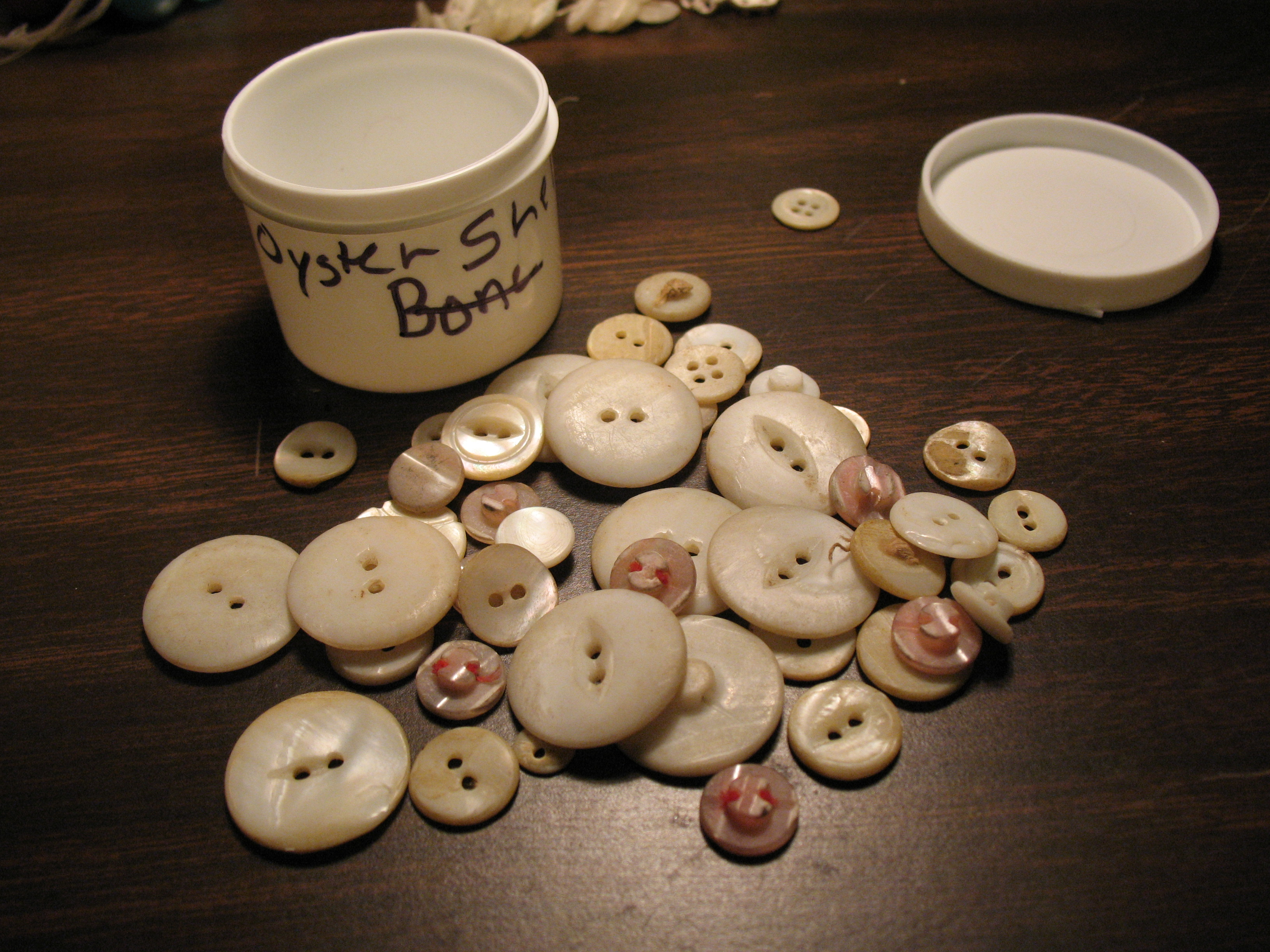 From Flickr description: "All kinds of styles. Most of them have a rough, unpolished look, like they've had the polish worn off of them, but maybe they don't polish buttons of oyster shell."